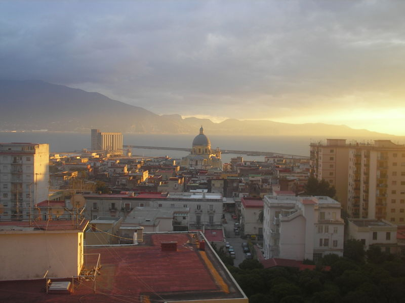 see , same name page file